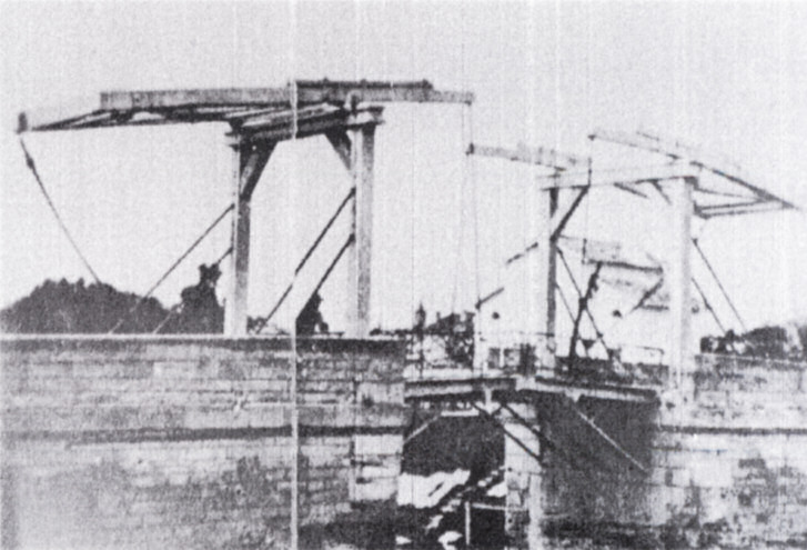 The original draw bridge which became famous by van Gogh's paintings. It was replaced by an armoured concrete bridge in 1930. At van Gogh's time, it was called "pont de Langlois", Langlois' bridge, after its bridge keeper.